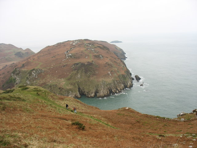 Walkers on the coastal path above Hell's Mouth This image also affords a good view of Dinas Gynfor. The "dinas" refers to an Iron Age fort sited on the summit of the hill.